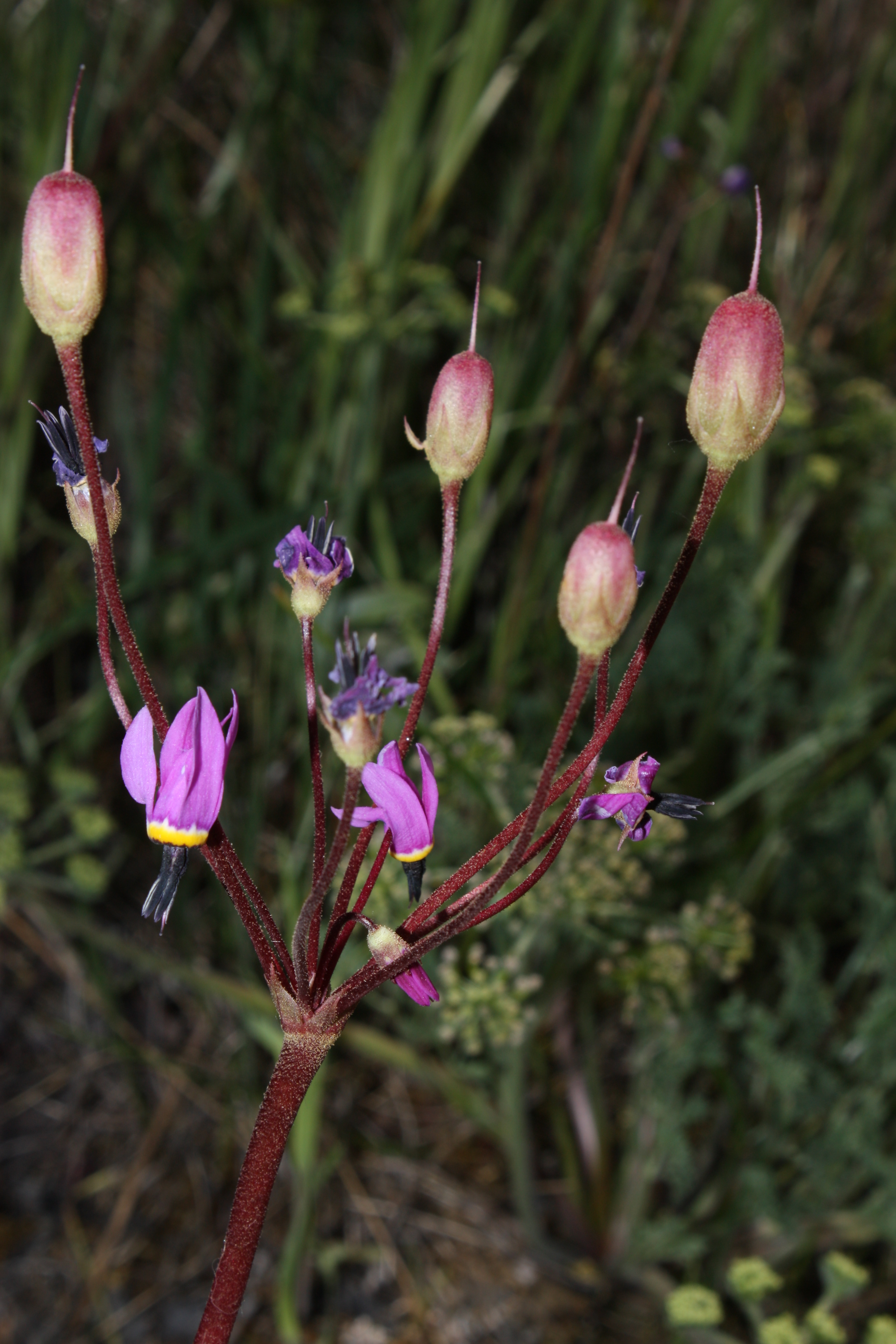 Shooting Star, Foothill Shooting Star, Mosquito Bills Viewpoint location: Trail at Rough and Ready Flat Botanical Area Viewpoint elevation: 425 meter (1395 ft) Location source: Garmin GPSmap 60CSx Location Datum: WGS84